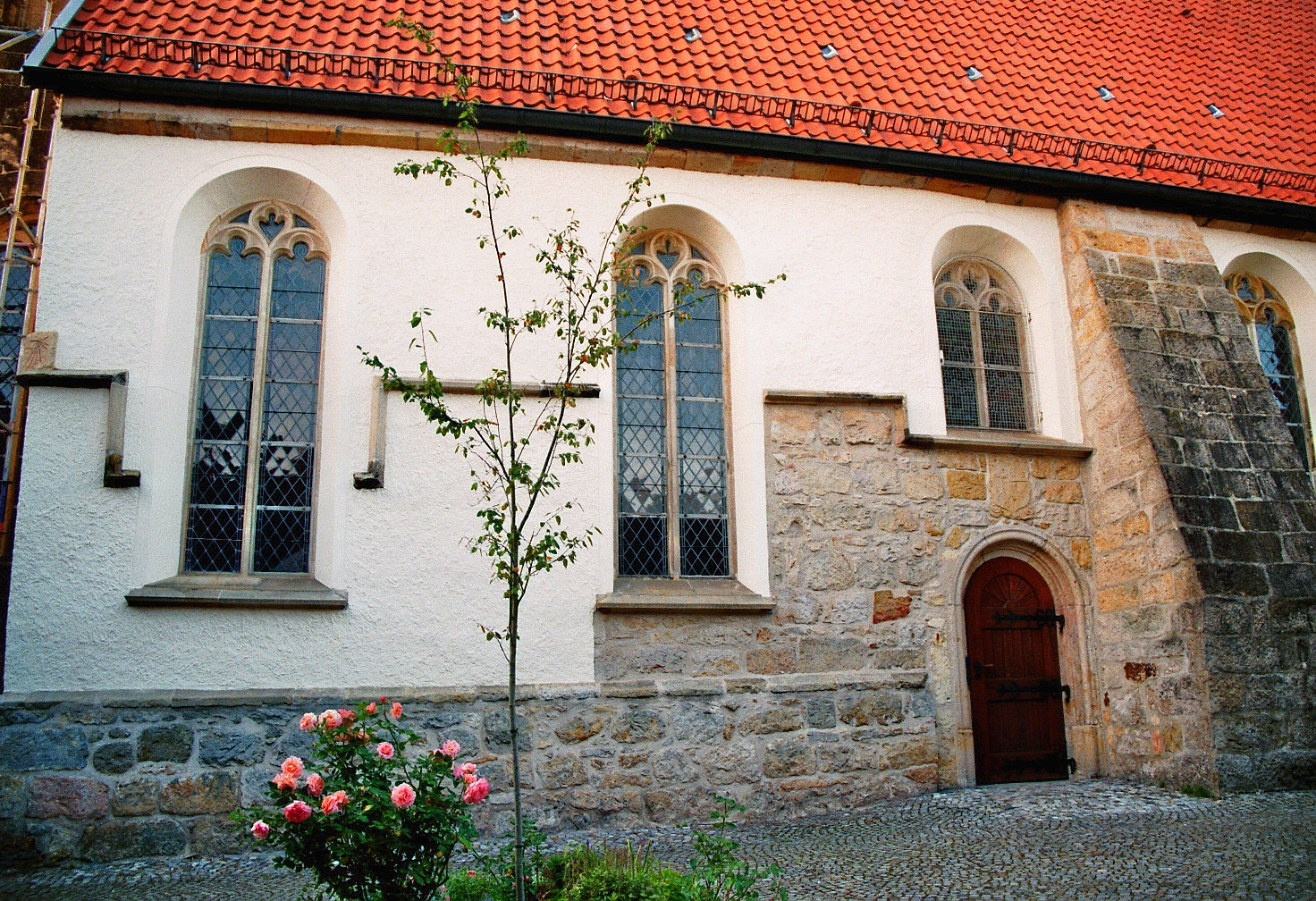 Protestant Church (Evangelische Stadtkirche) of Tecklenburg, Kreis Steinfurt, North Rhine-Westphalia, Germany.